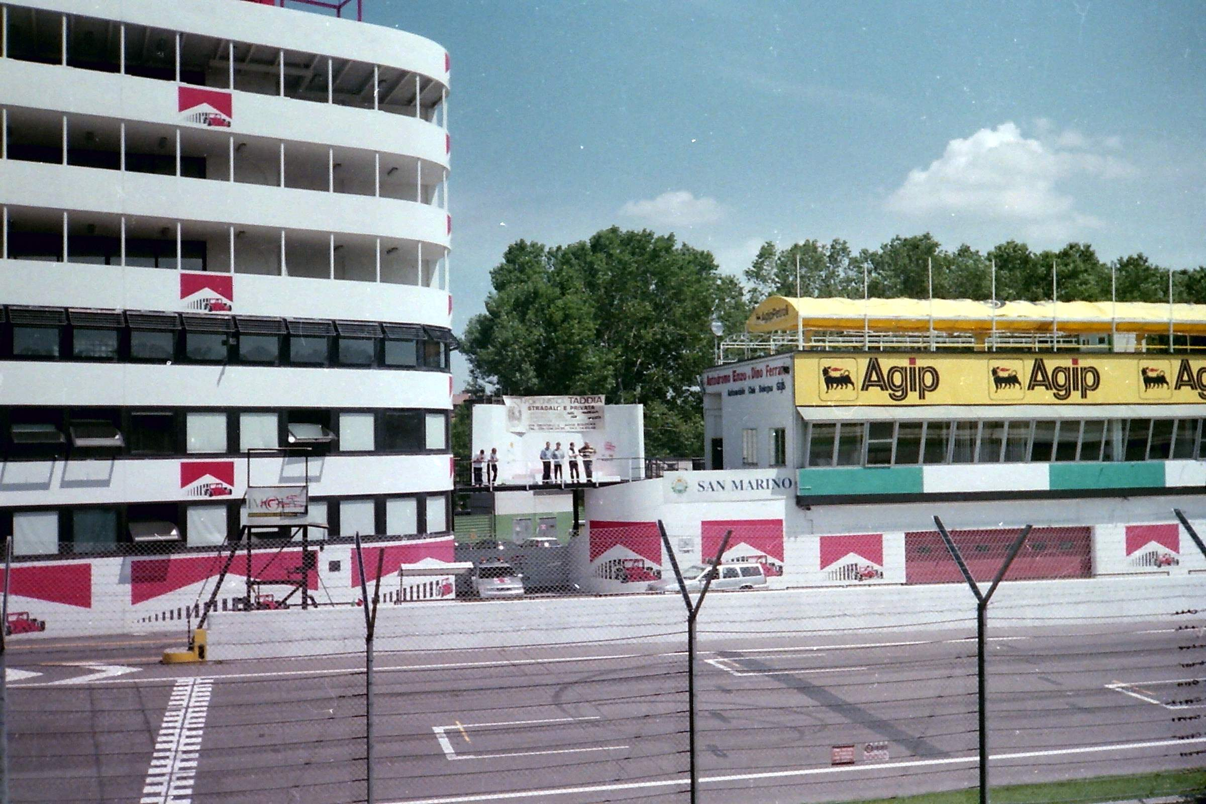 Imola (Italy), "Enzo e Dino Ferrari" Autodrome, June 1998. A view of circuit tower, podium and pit during a day of private motorcycle testing.